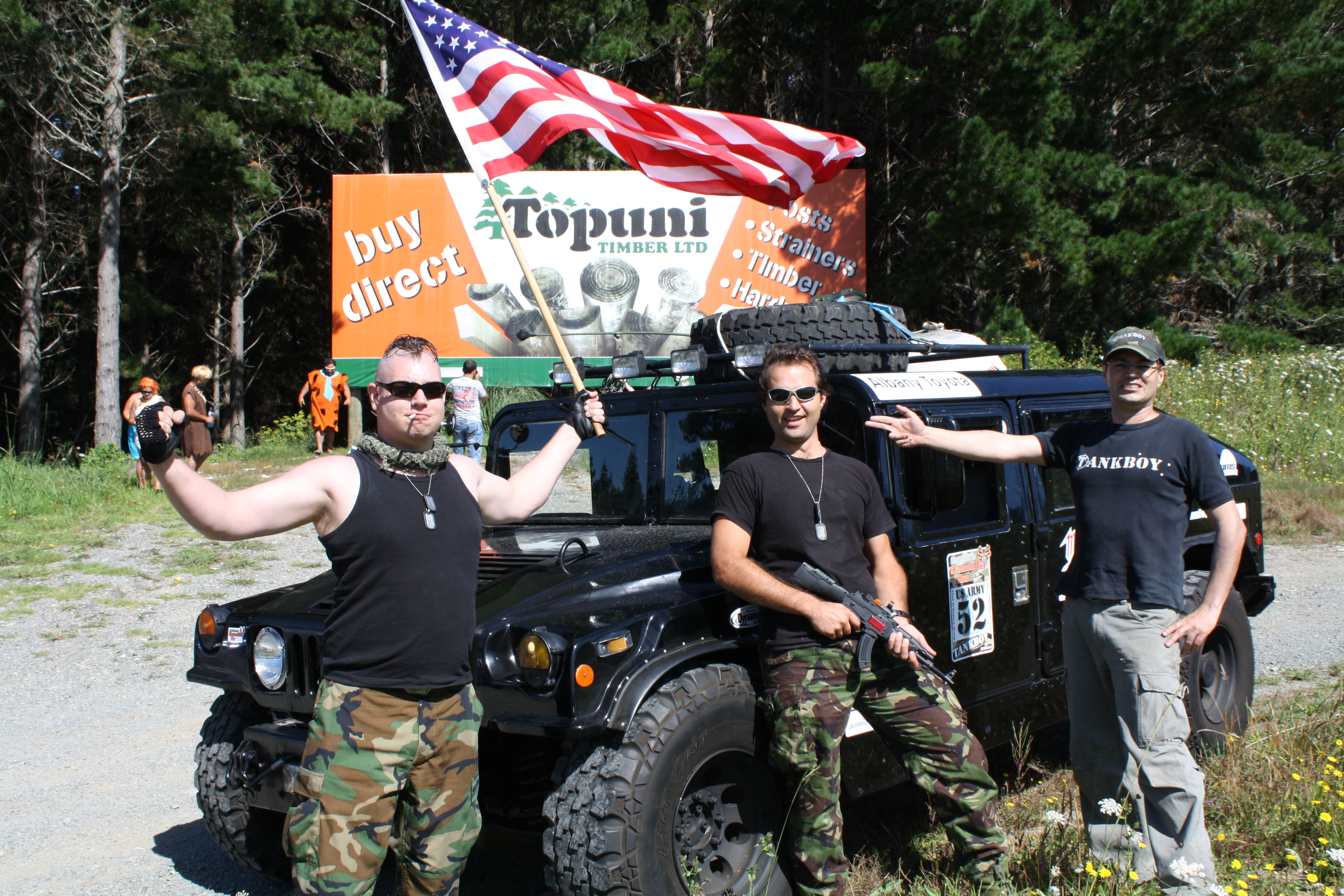 TeamTankboy during the CannonBall Run 2011.